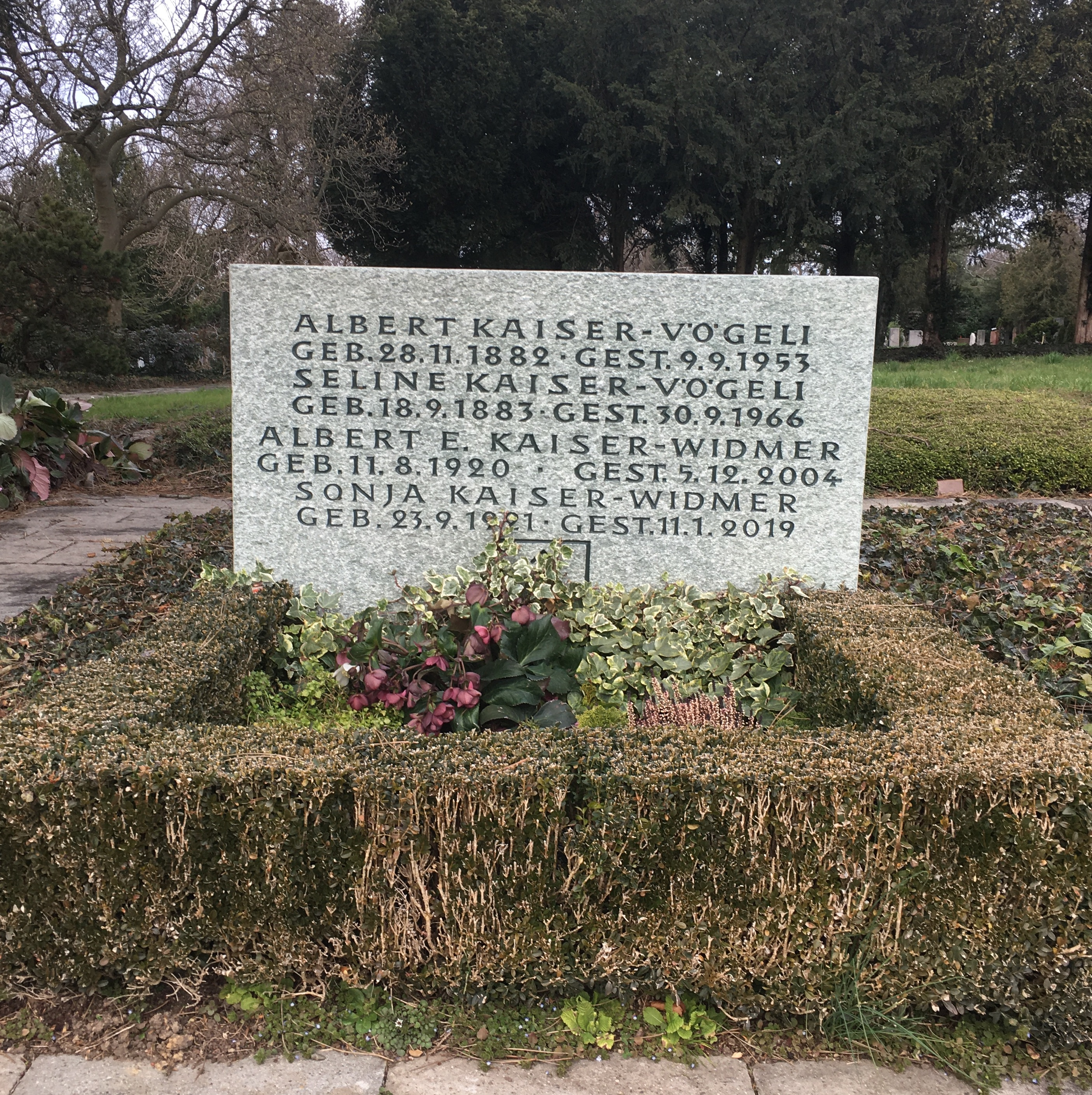 Gravestone of Albert E. Kaiser in Binningen graveyard, Switzerland